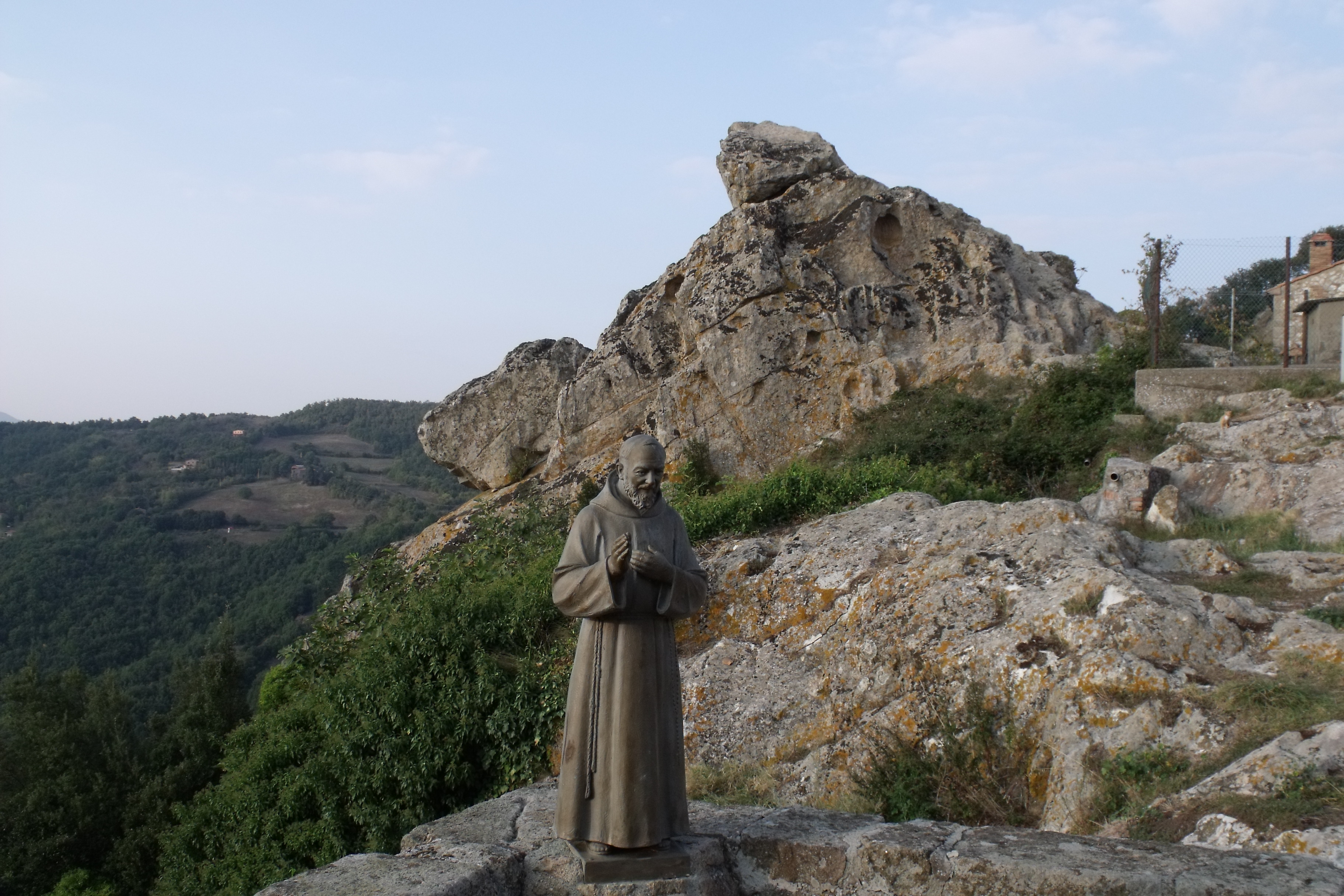 Staue of San Pio on the squre of the Church Chiesa di San Martino Vescovo in Roccatederighi (Roccastrada), Province of Grosseto, Tuscany, Italy